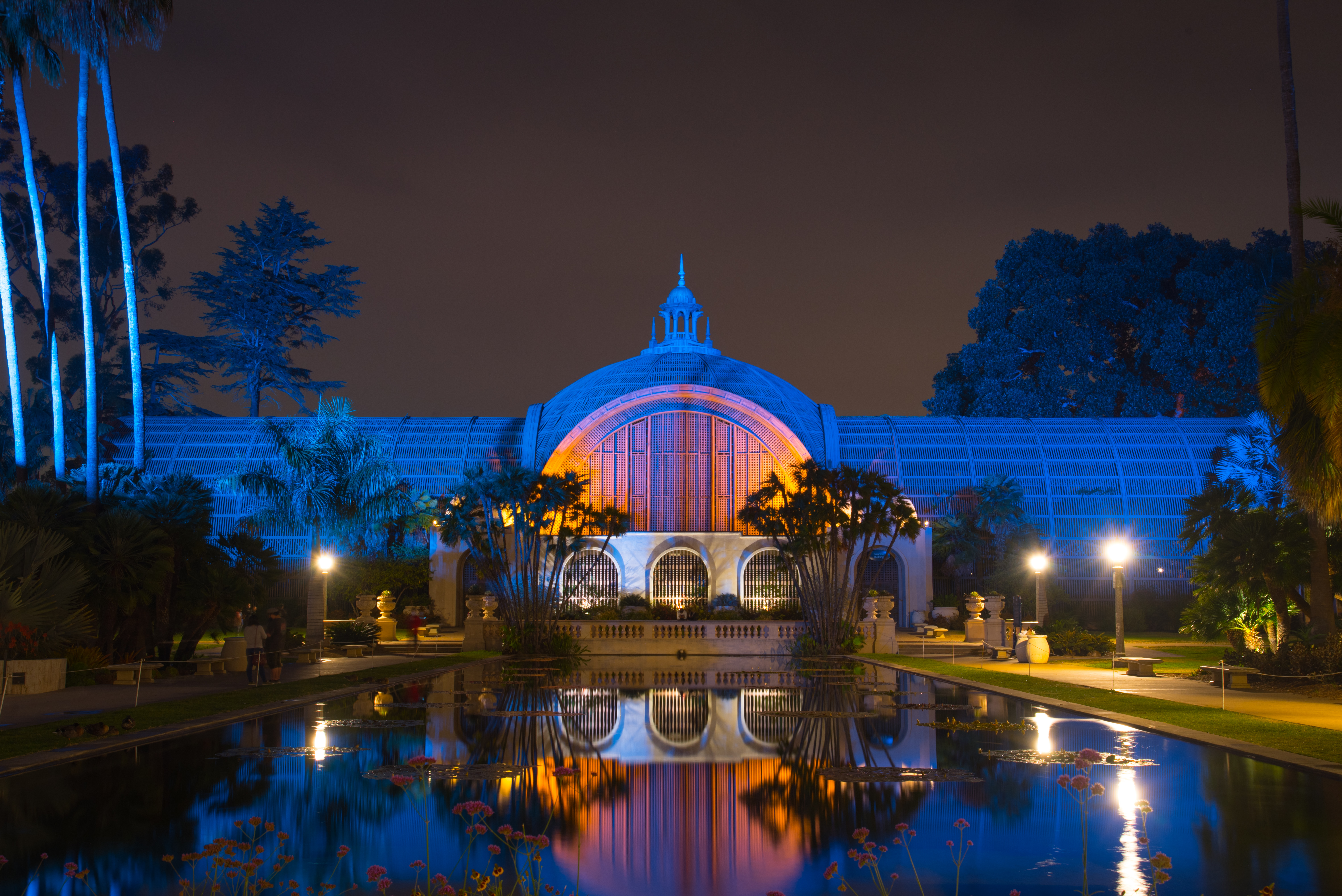 The Balboa Park Gardens decorated with spectacular blue light, reflected in the Koi Pond.